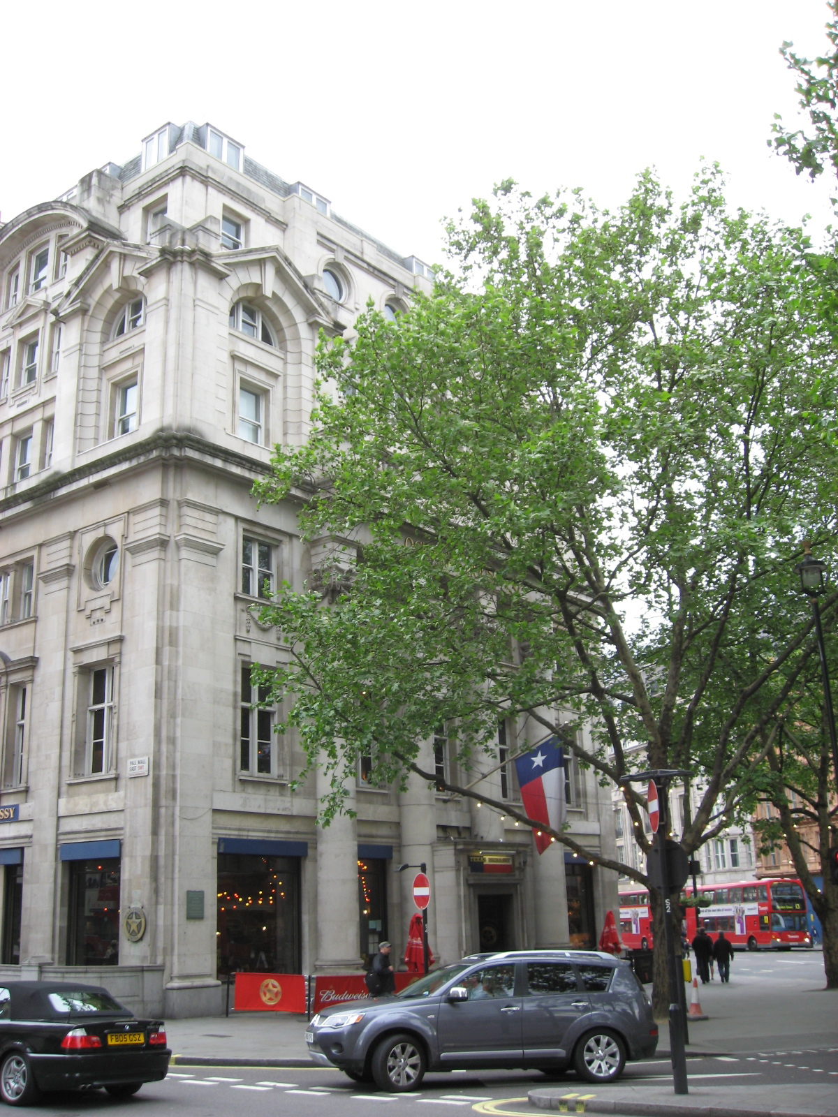 Former headquarters of the White Star company, owners of the Titanic, next to Trafalgar Square. At the time of this photograph the premises was used as a Tex-Mex restaurant 'Texas Embassy Cantina' This closed in June 2012, Oceanic House, 1 Cockspur Street, London SW1Y 5DL